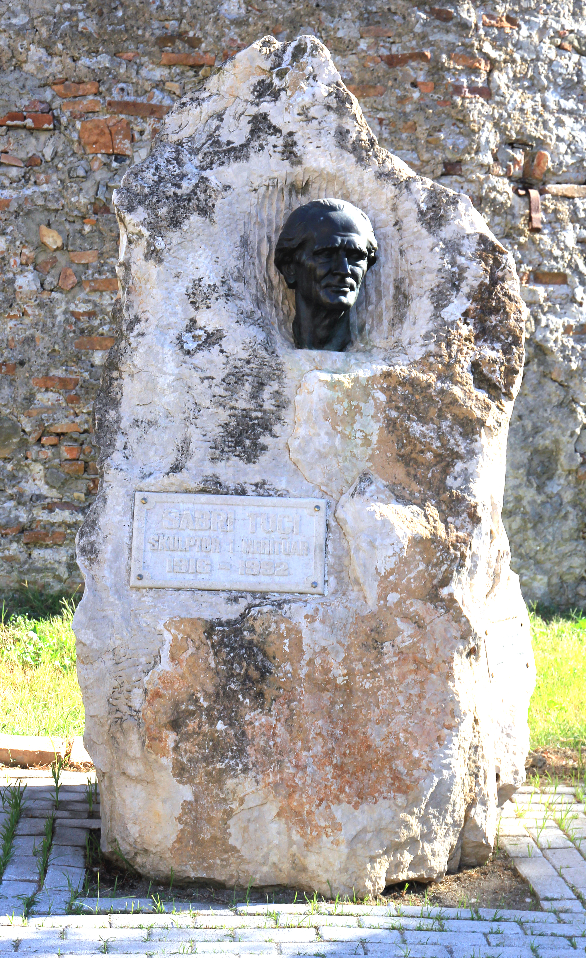 Bust of Albanien sculpror Sabri Tuçi near of port in the center of the city Durrës, Albania, September 2018